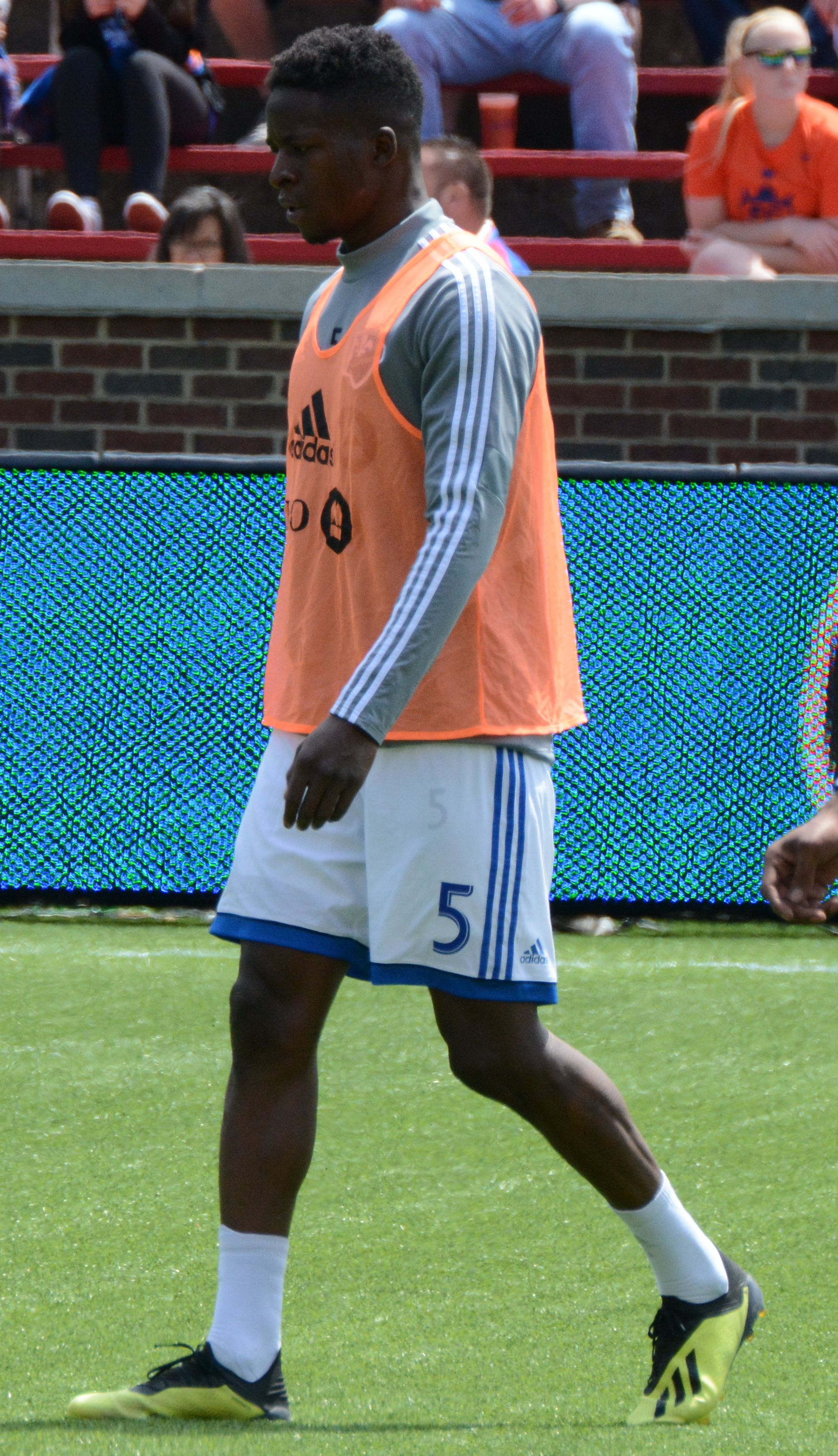 Taken during practice before a Major League Soccer regular season match between FC Cincinnati and Montreal Impact at Nippert Stadium in Cincinnati, USA on May 11, 2019